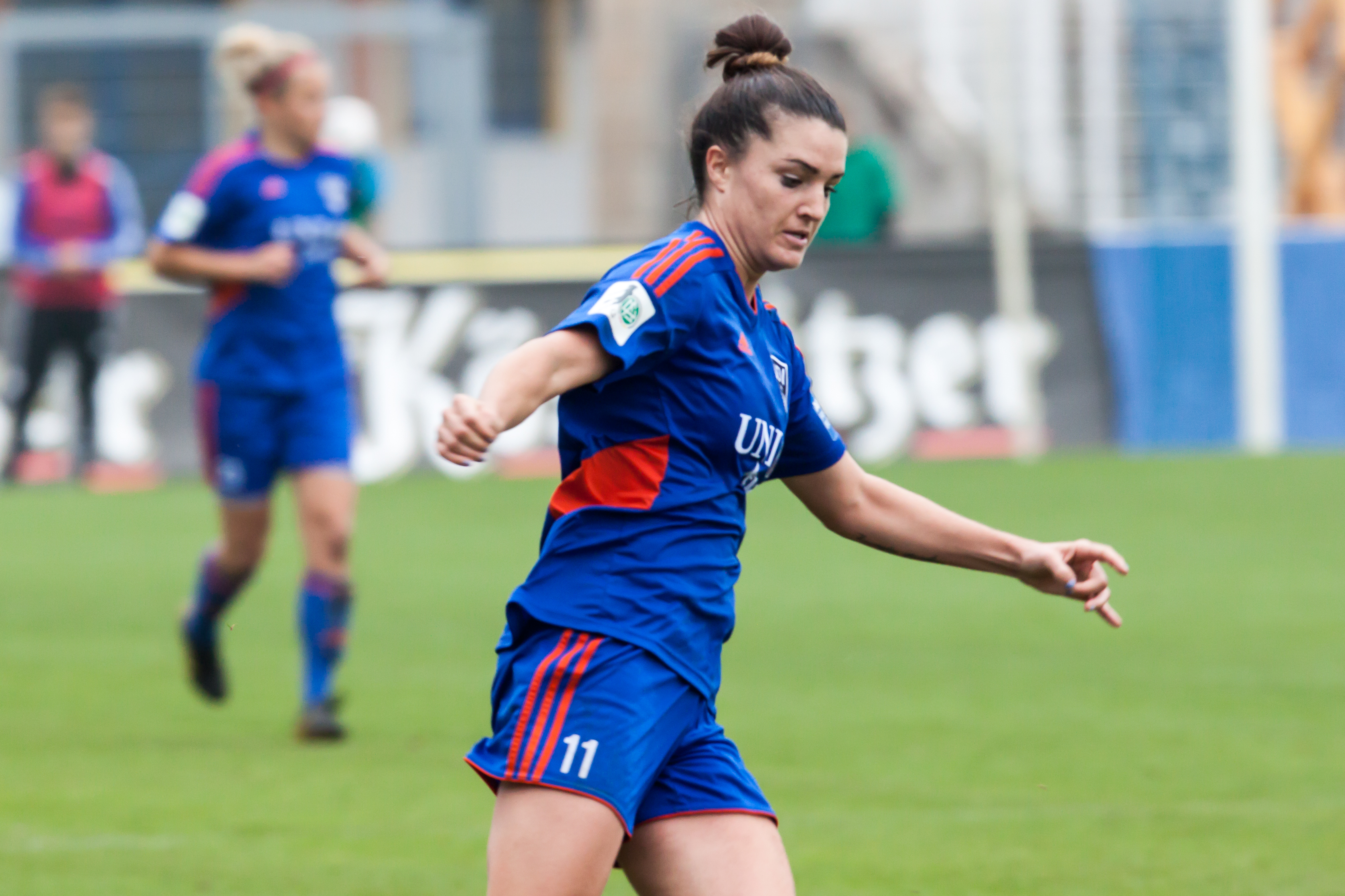 German Women Bundesliga soccer game: FF USV Jena vs. TSG 1899 Hoffenheim, 2014-10-11, at Ernst-Abbe-Sportfeld Jena.